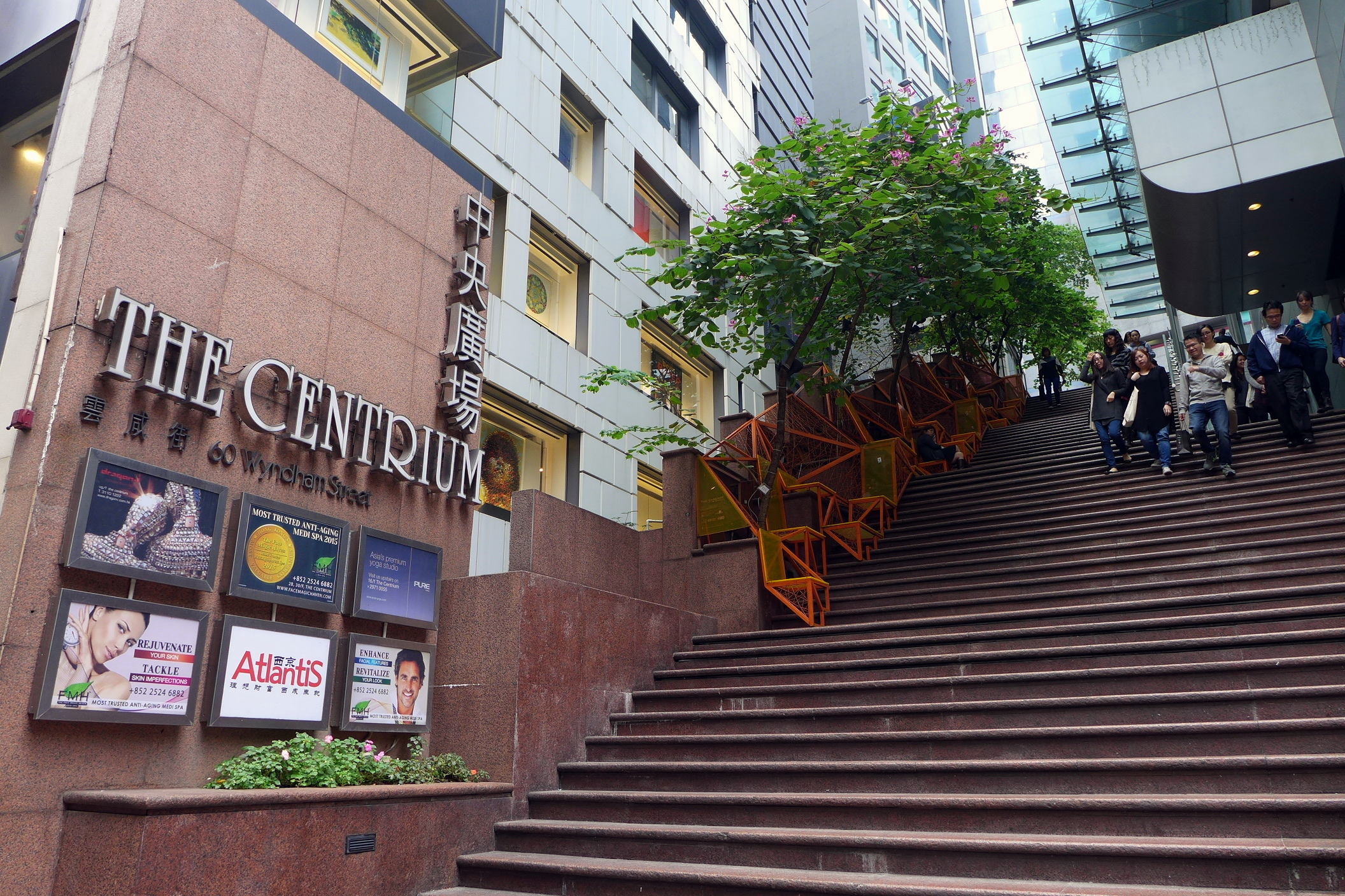 The Centrium Entrance Stairs